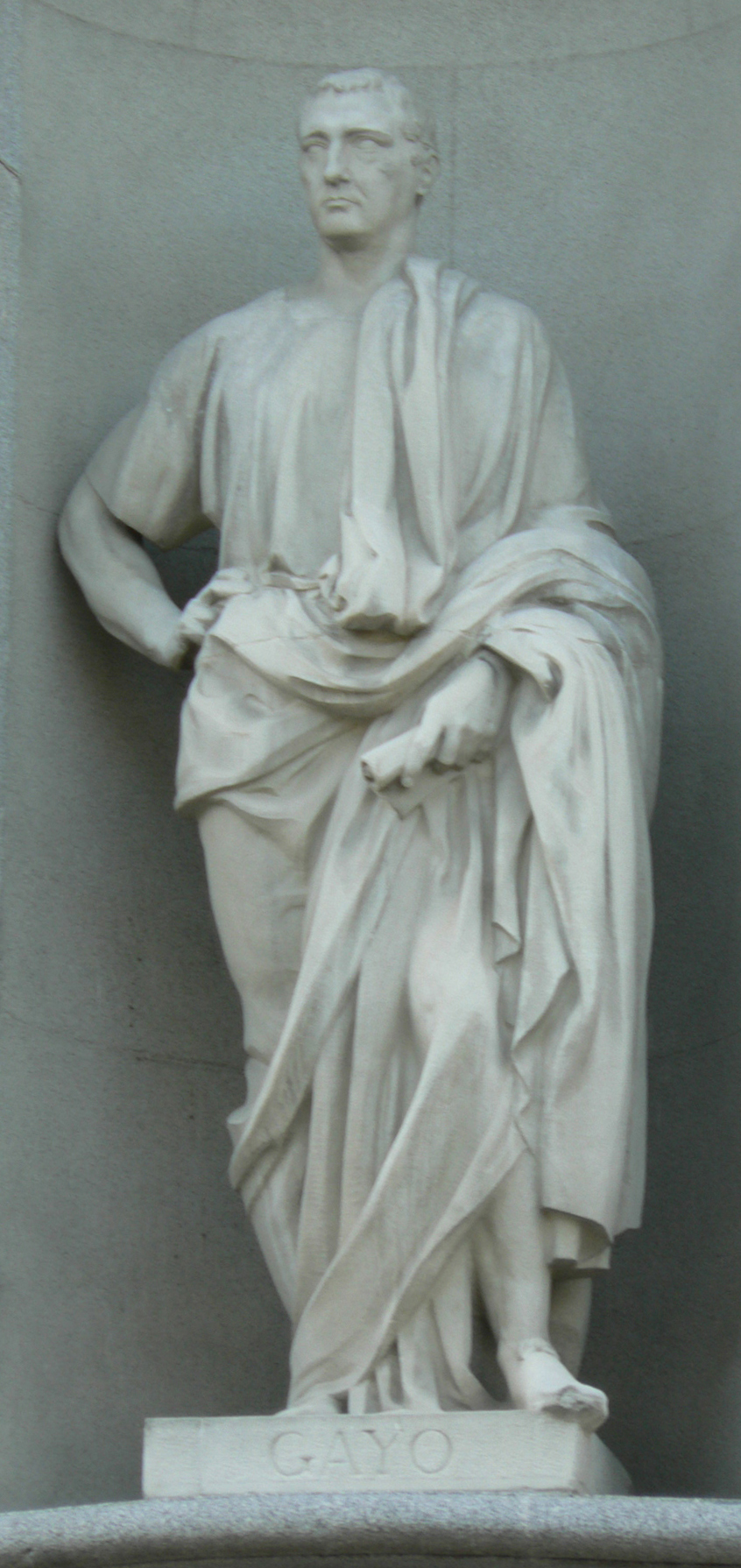 Sculpture of the Roman jurist Cayo (Caius in Latin) placed in the facade of the Supreme Court of Madrid, Spain.